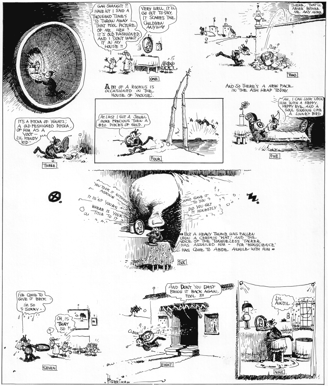 Krazy Kat - Sunday comic strip by George Herriman, either from 1917-12-02 or 1917-12-09 (The Comic Art of George Herriman and The Komplete Kat Komics Volume 2 disagree on the date).